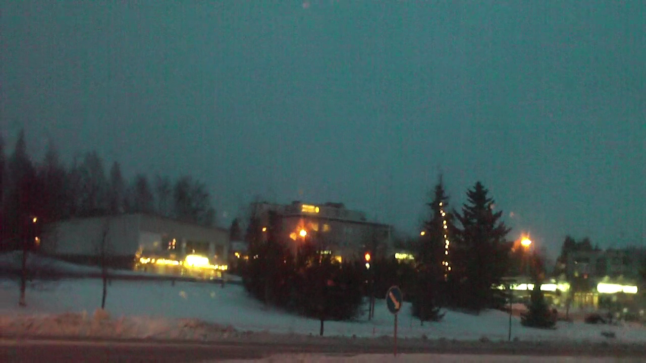 Paimio city center. Houses and a Christmas tree in Paimio, southwestern Finland, Paimio.